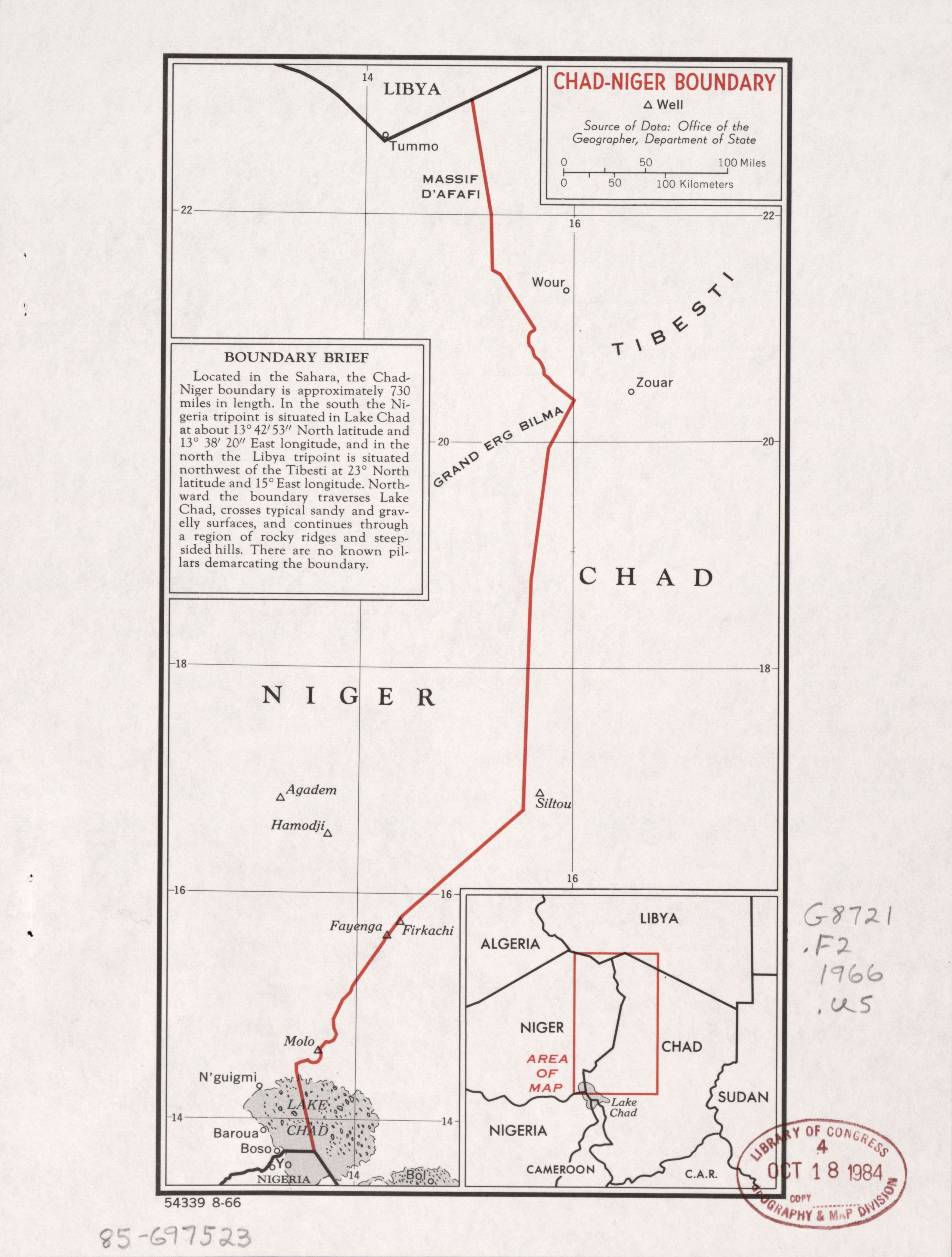 "54339 8-66." Also shows wells. "Source of data: Office of the Geographer, Department of State." Includes note and key map. Available also through the Library of Congress Web site as a raster image.